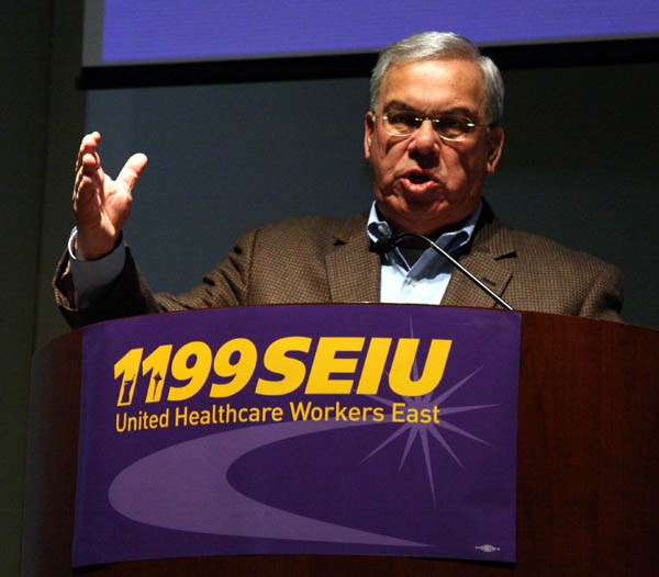 Thomas Menino addressing members of 1199SEIU at a convention 2/10/2007